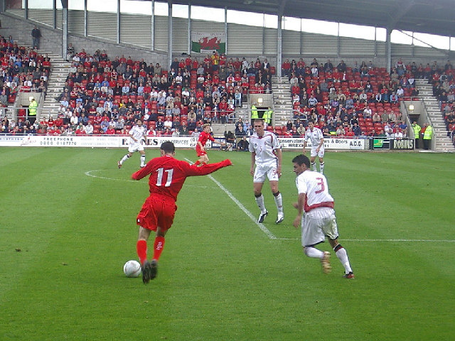 The Racecourse Ground. Ryan Giggs prepares to cross the ball as Wales take on Canada at Wrexham's Racecourse Ground